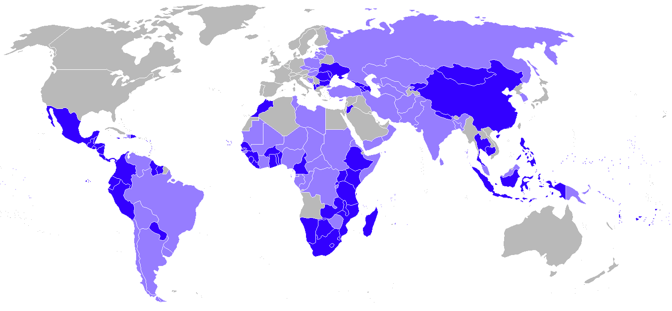 Countries served by Peace Corps Volunteers as of 2009. Countries formerly served.